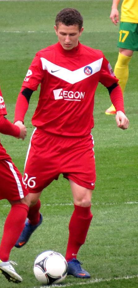 Photo - Slovak footballer Samuel Štefánik